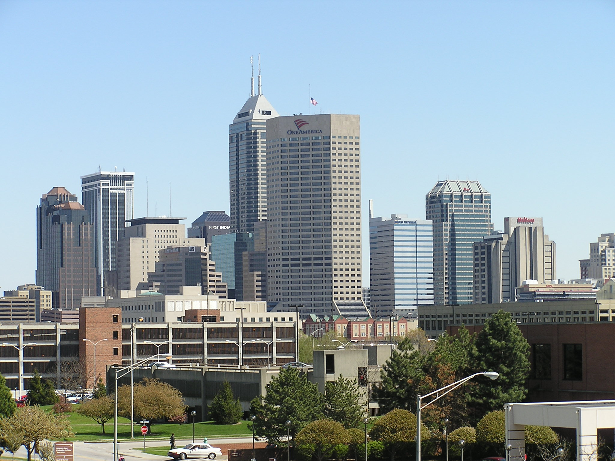 Skyline of Indianpolis. This photo was also taken from the top floor of an IU Hospital parking garage in spring 2007.